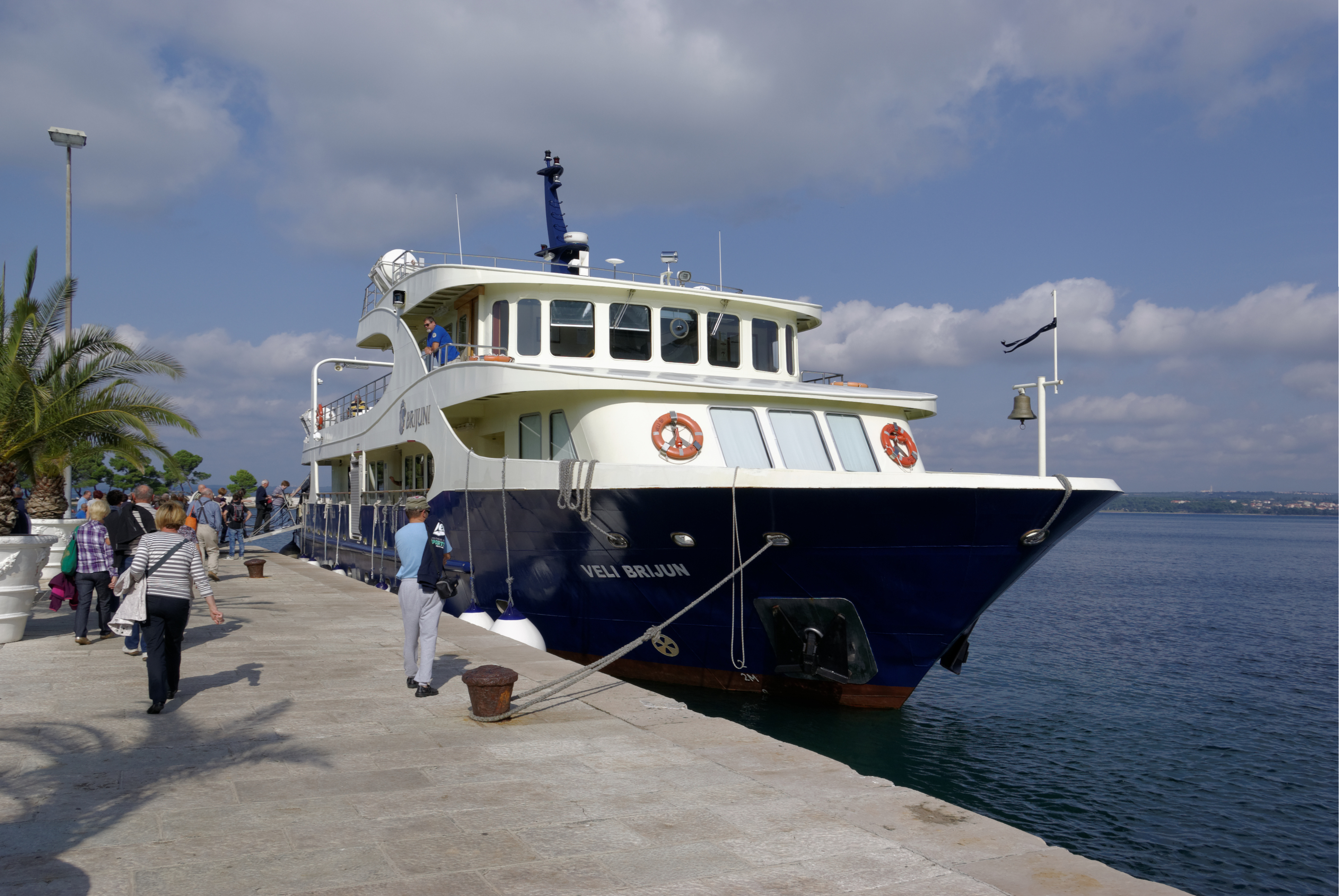 Croatia, Brijuni, harbour with ferry Veli Brijun to Fažana